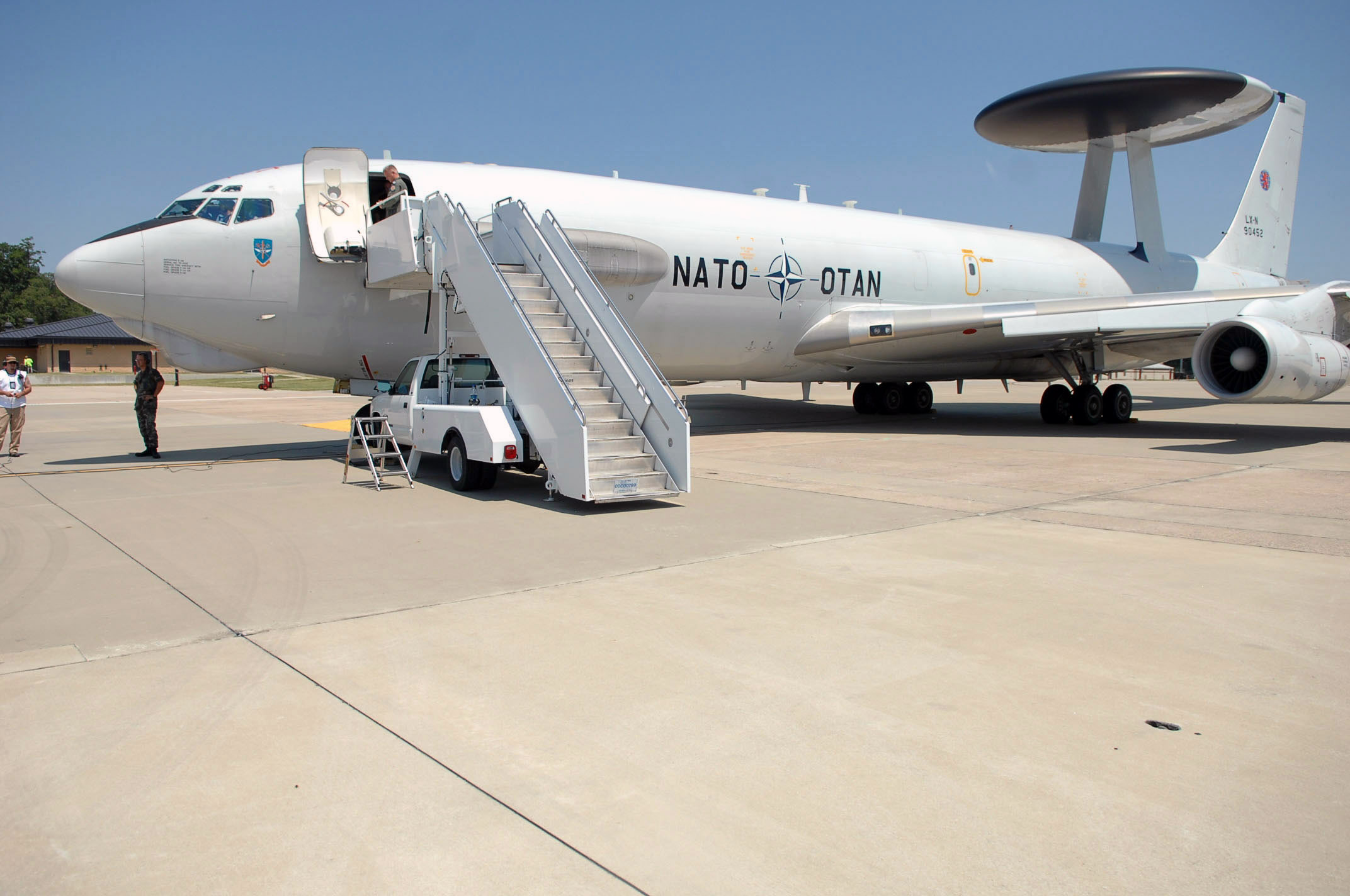 NATO AWACS conducts Strike Eagle dogfights: A NATO E-3A Sentinel, LX-N-90412, an airborne warning and control systems aircraft from Geilenkirchen, Germany, sits on the flightline Aug. 12 at Seymour Johnson Air Force Base, N.C. The aircraft has crewmembers from Germany, Turkey, Greece, Denmark, United States, Portugal and Canada.